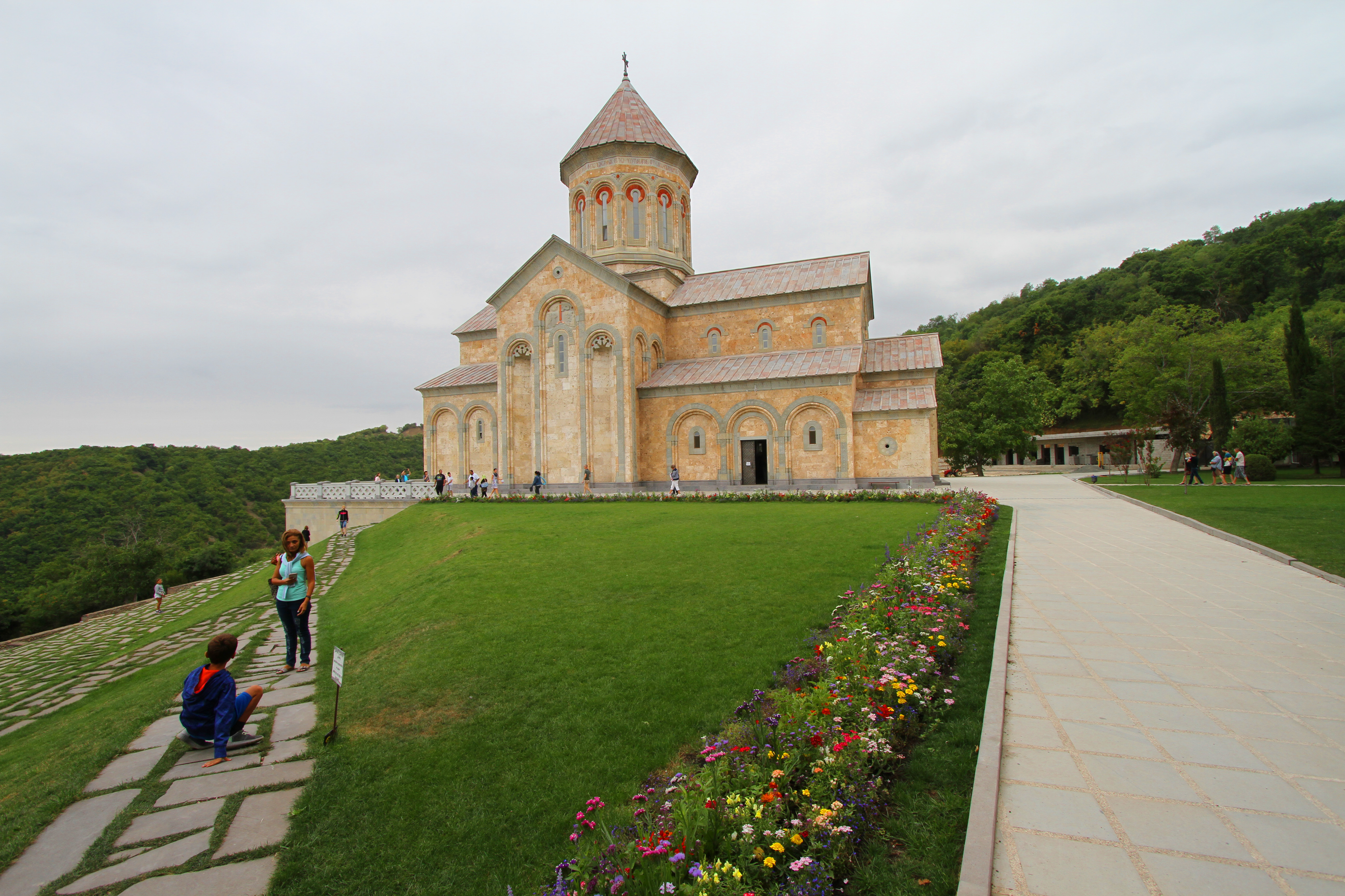 Bodbe Monastery, Sighnaghi